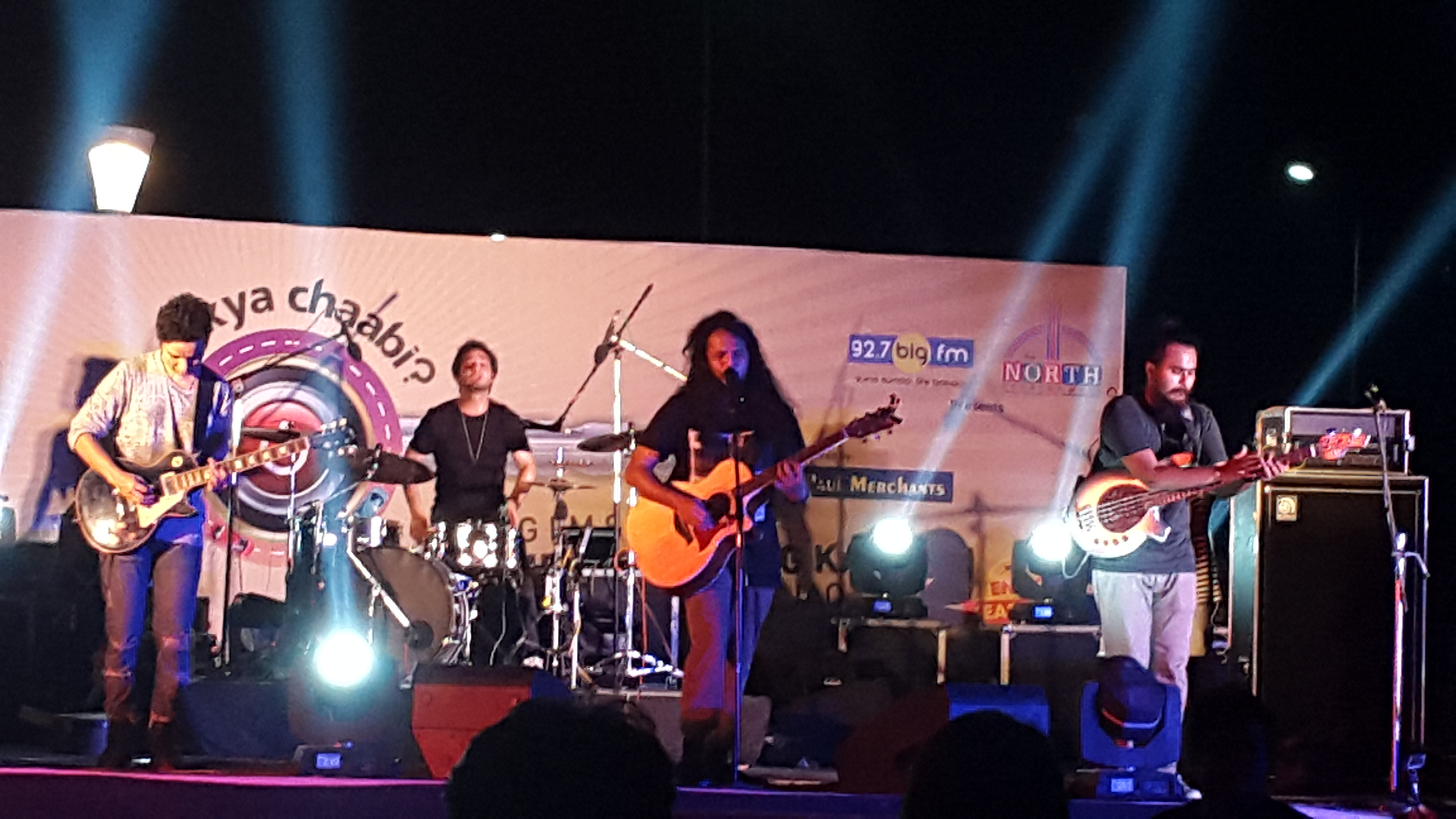 The Local Train. Band. India.